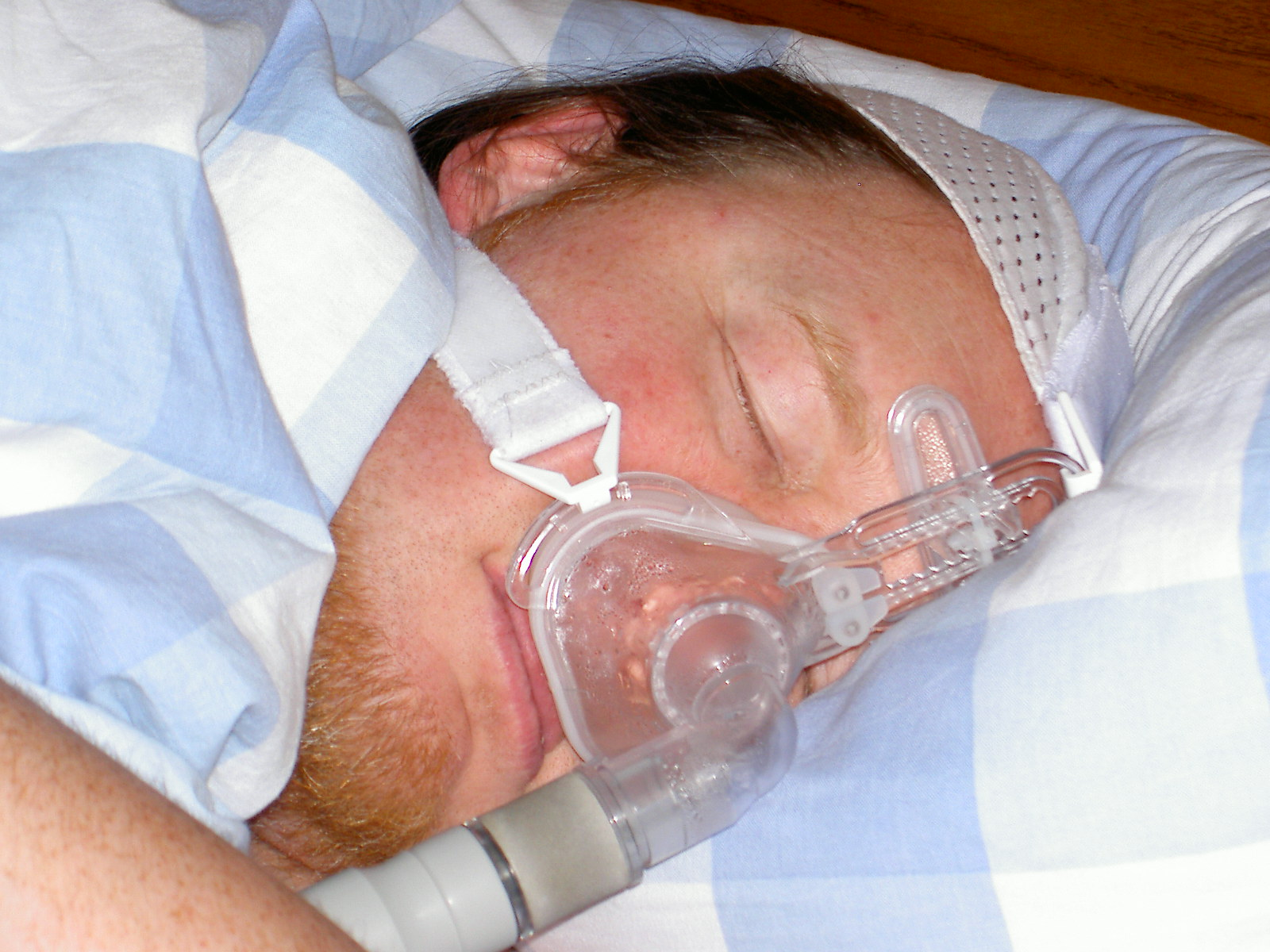 CPAP user